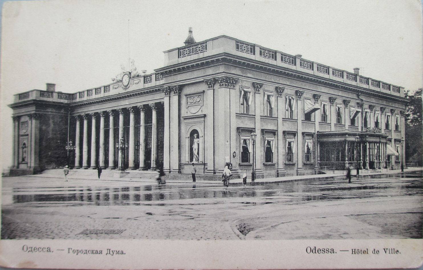 Open Letter (Carte Postale) with view of Odessa City Hall (Gorodskaya Duma)